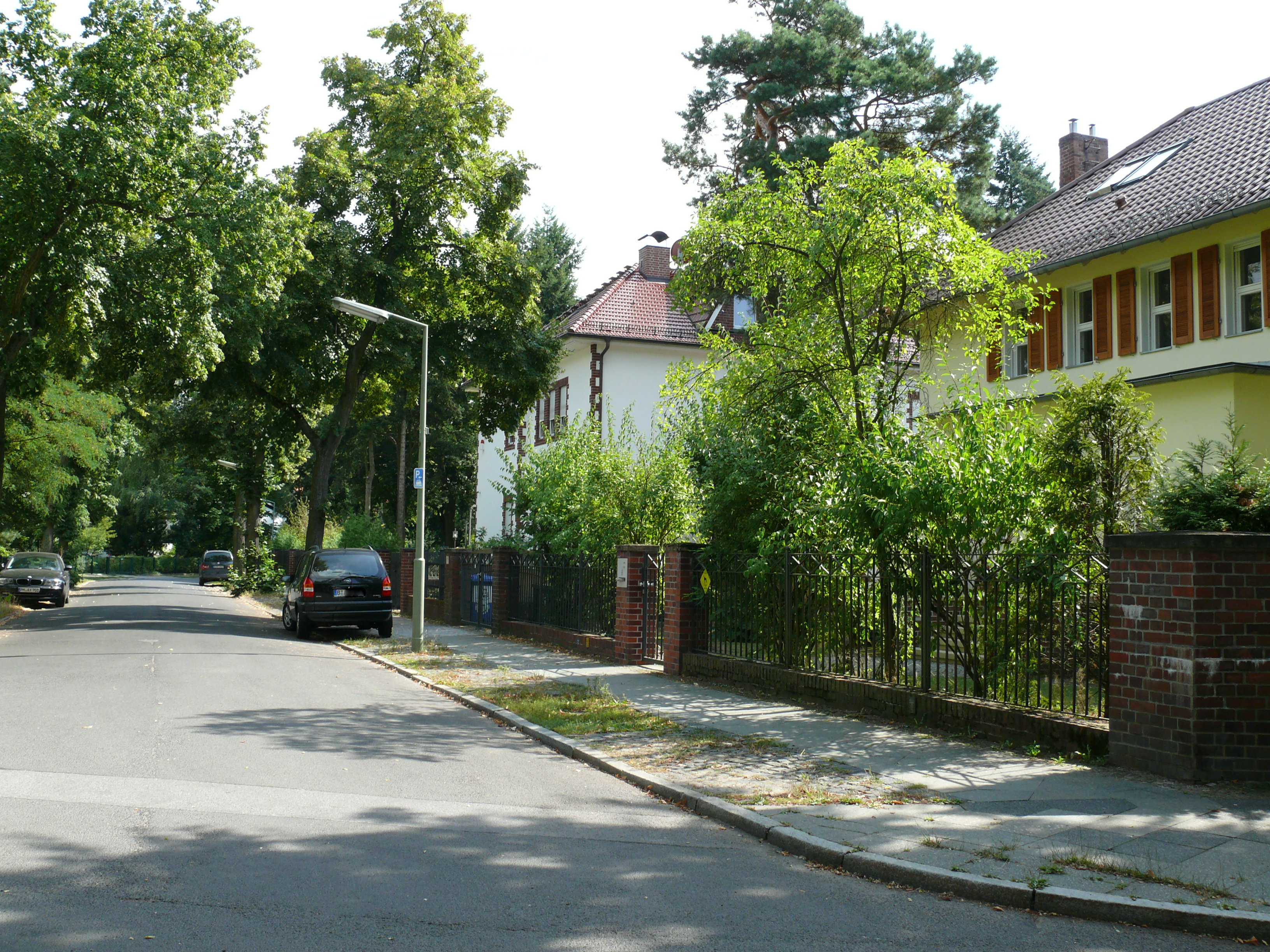 Berlin-Wannsee Kyllmannstraße